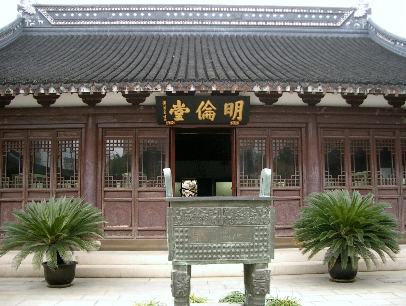 Minglun Hall, Shanghai Confucian Temple